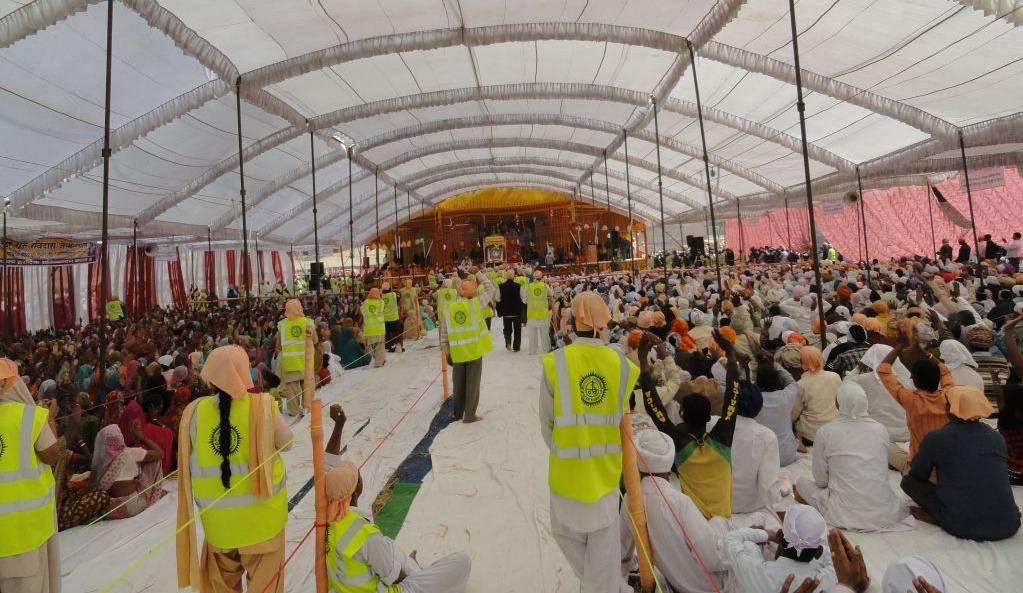 Devotees at 635th Anniversary of Sri Guru Ravidass ji at Sri Guru Ravidass Janamsthan Mandir, Seer Goverdhanpur, Varanasi, UP